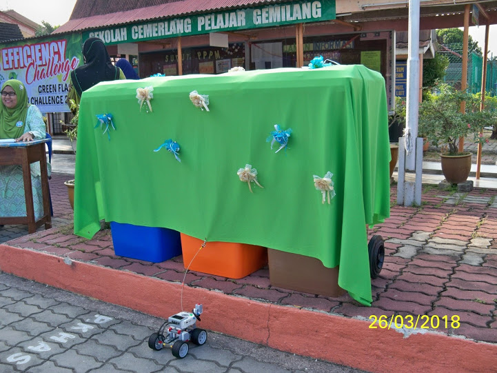 Cekap tenga 6